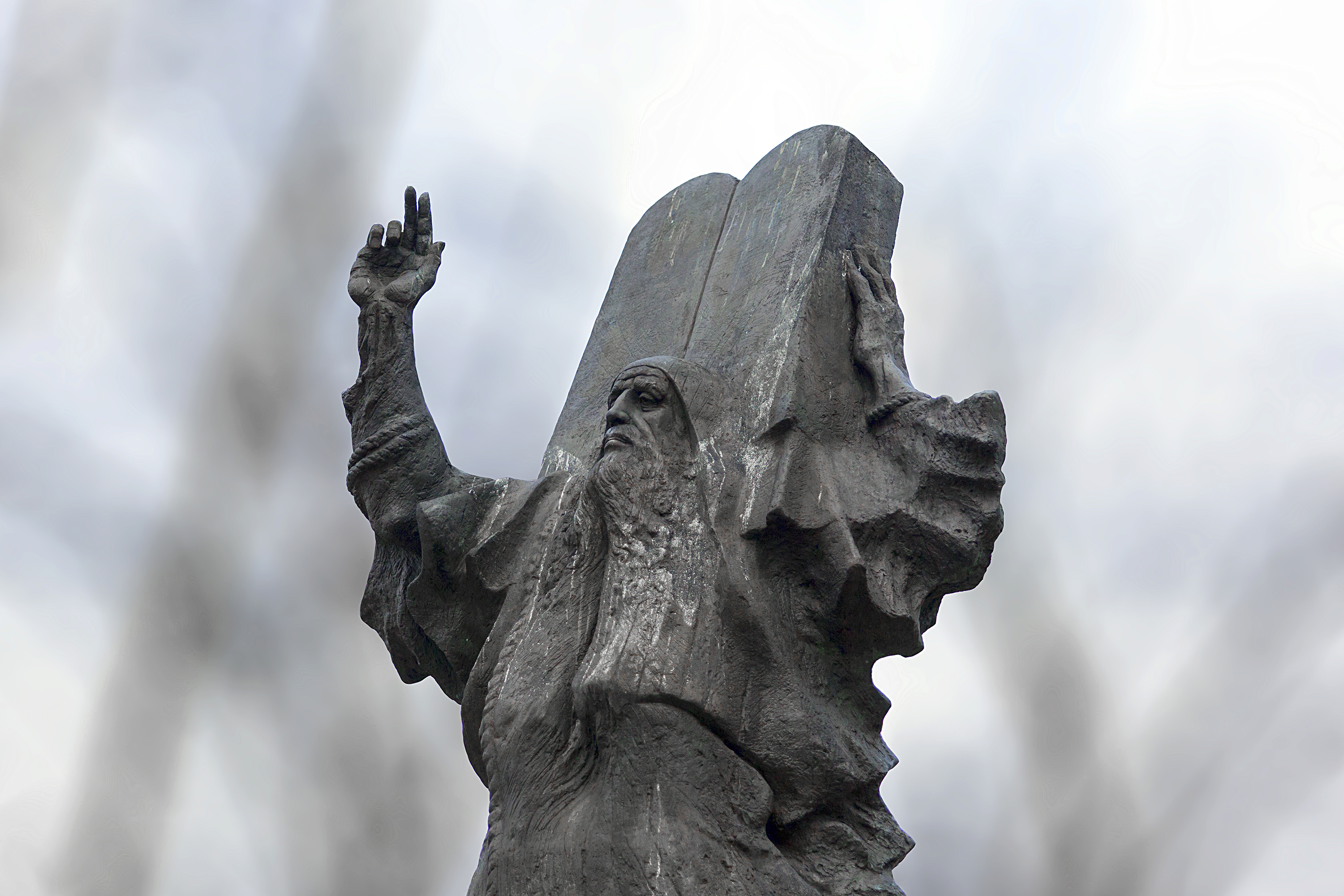 Moses monument in Lodz, Poland